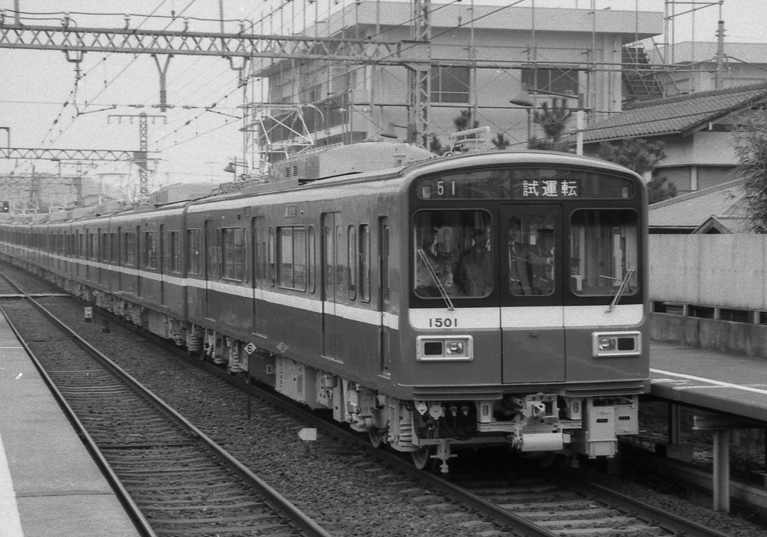 Keikyu 1501 + 1505 at Keihin Otsu Station